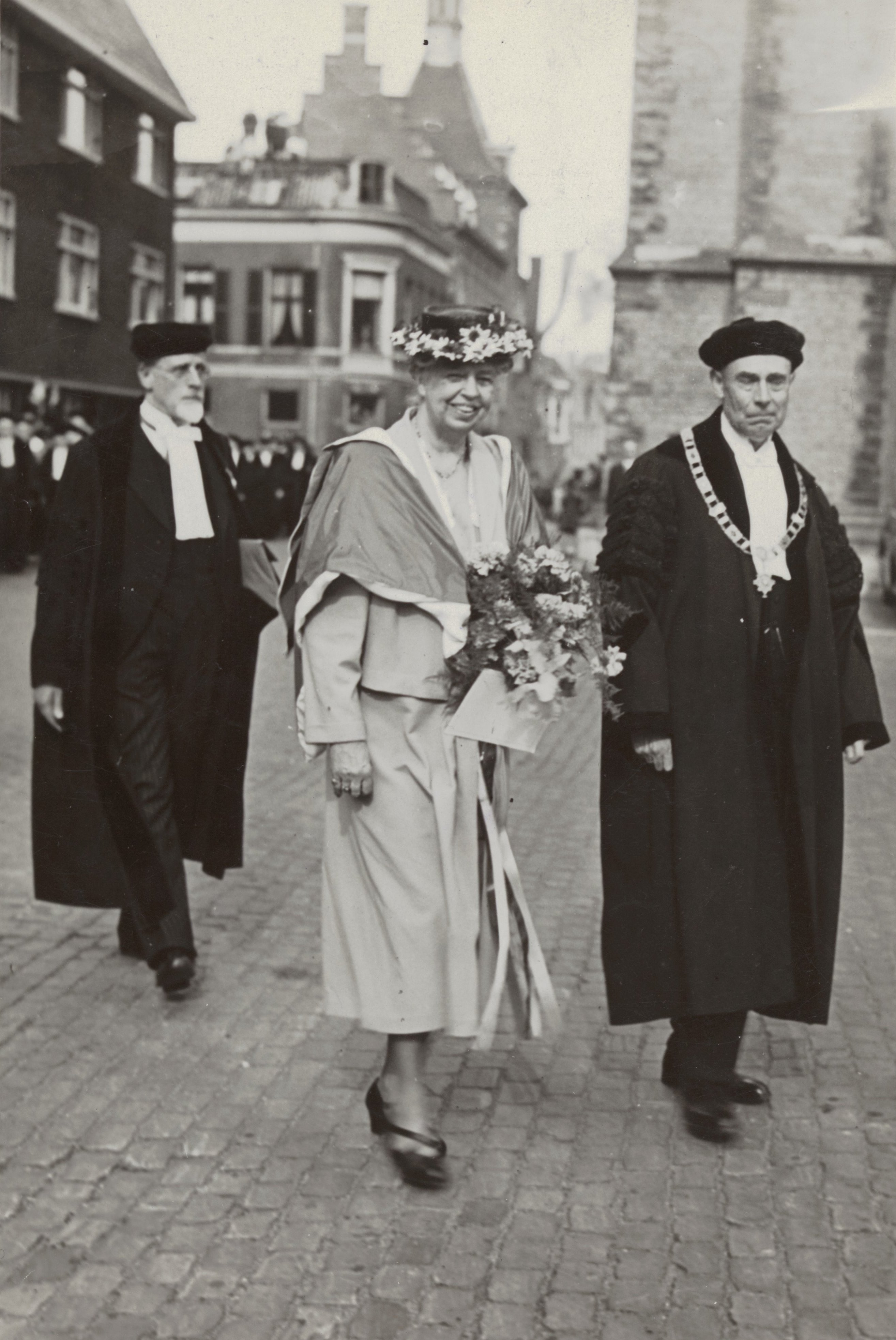 Honorary doctorate Utrecht University 1948. From left to right Simon van Brakel, Eleanor Roosevelt and rector U.G. Bijlsma. Utrecht, 20 April 1948